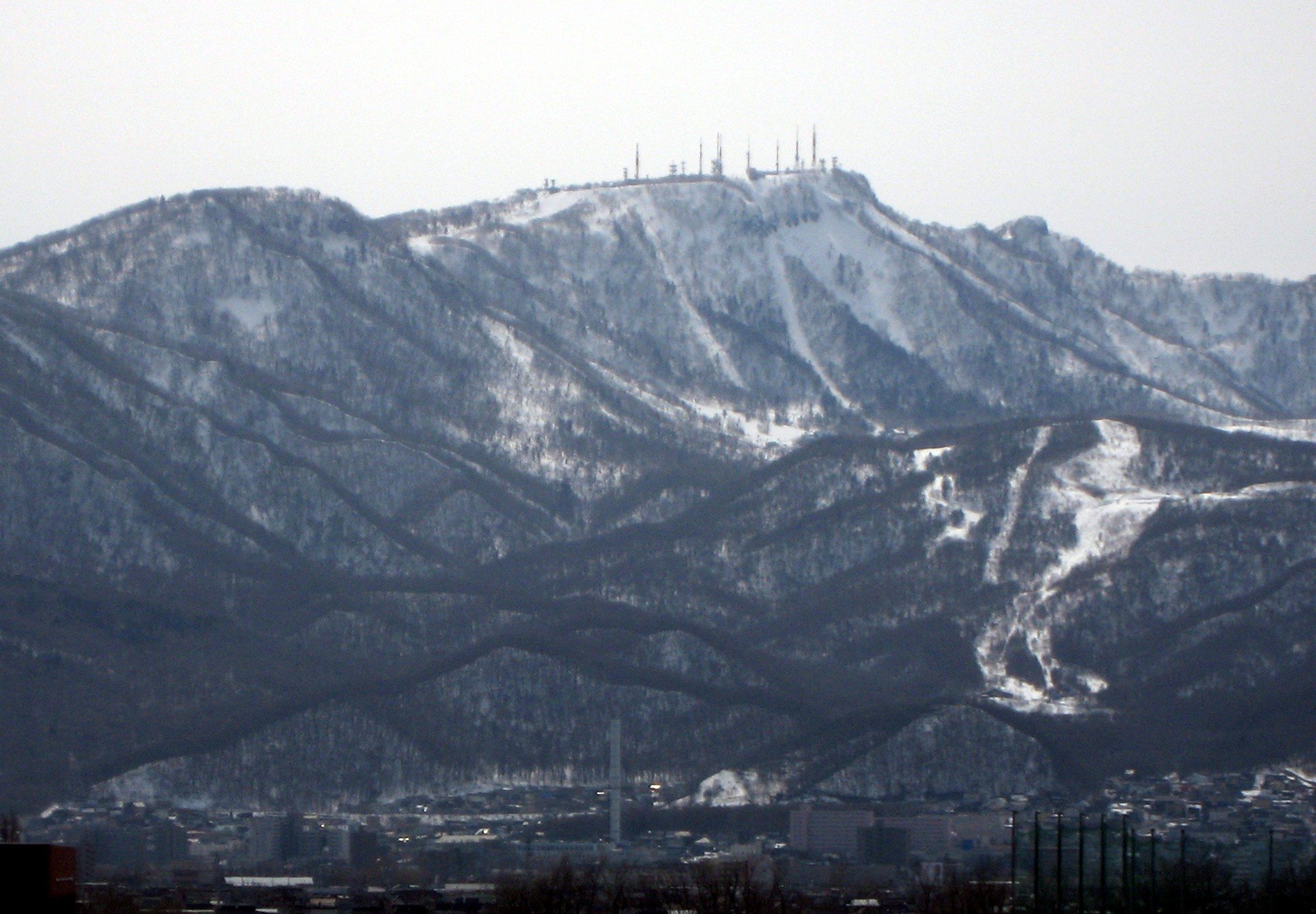 Mount Teine in Hokkaido, Japan, seen from Ishikari City